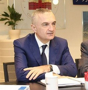 April 2014 OSCE Parliamentary Assembly